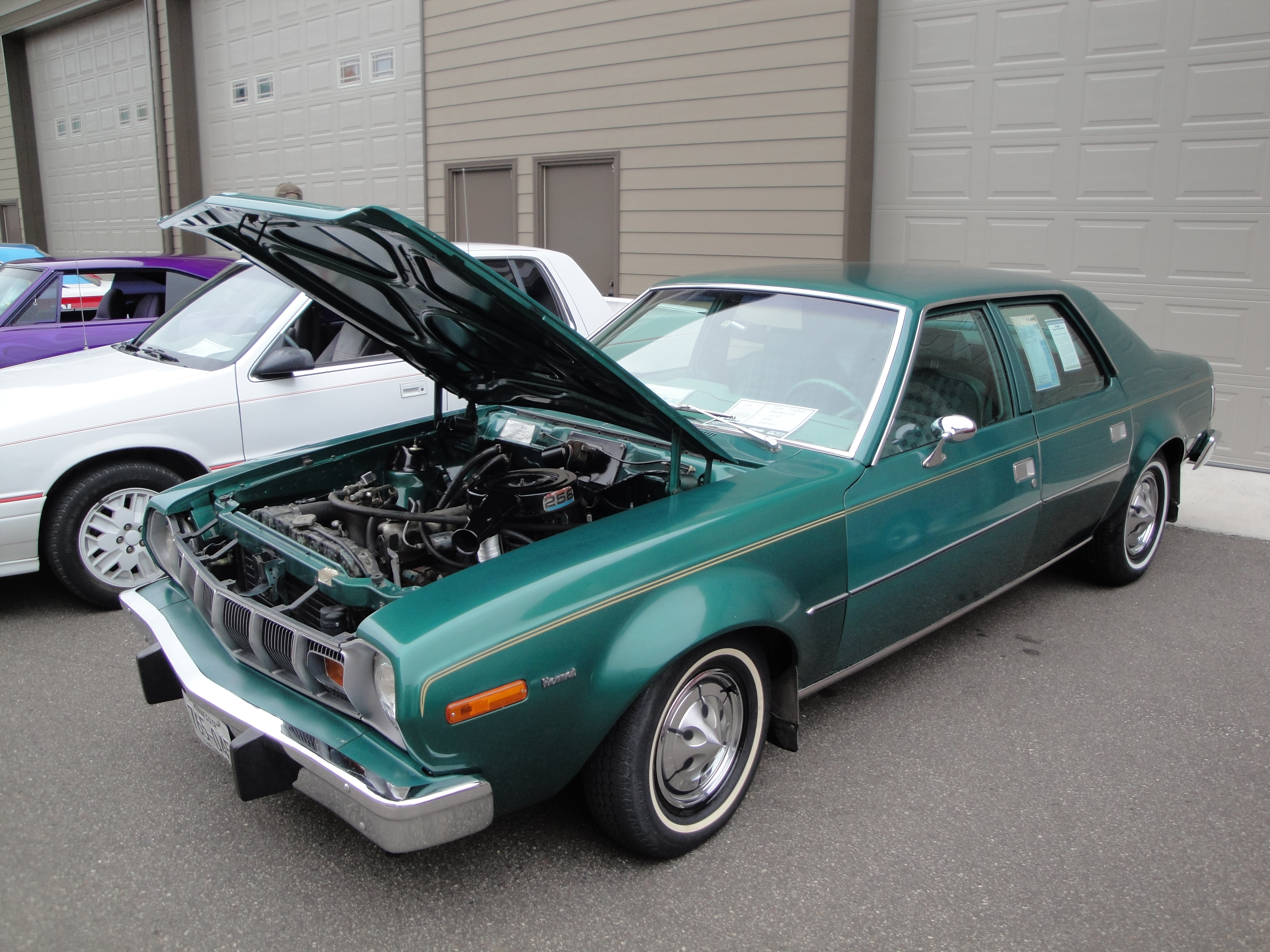 1975 AMC Hornet, a compact-size four-door sedan. AutoMotorPlex Top 21 All Mopars Car Show hosted by MnChallengers.